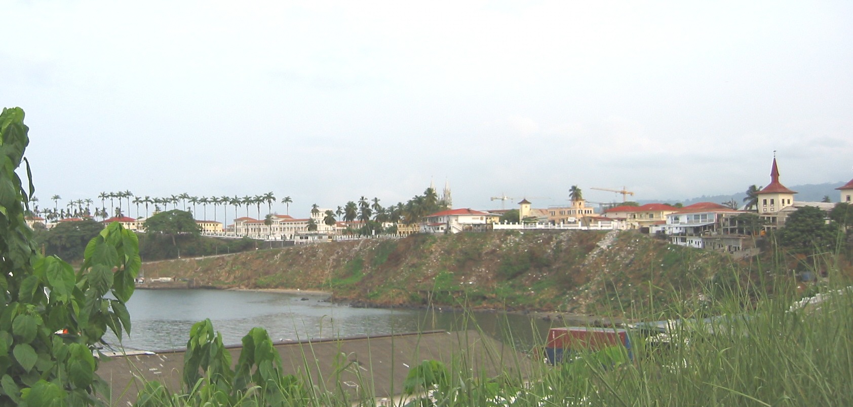 View of the waterfront at Malabo, Equatorial Guinea, February 2006